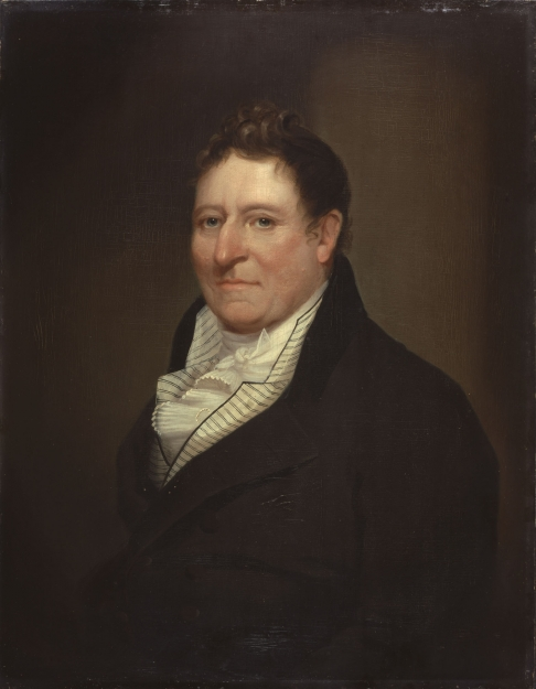 Oil on wood panel Medium 30 3/8 H x 23 1/2 W Dimensions Descended from Charles Edmond Genet to his youngest son, George Clinton Genet Provenance Bequest of George Clinton Genet Credit 1909.21 Accession number